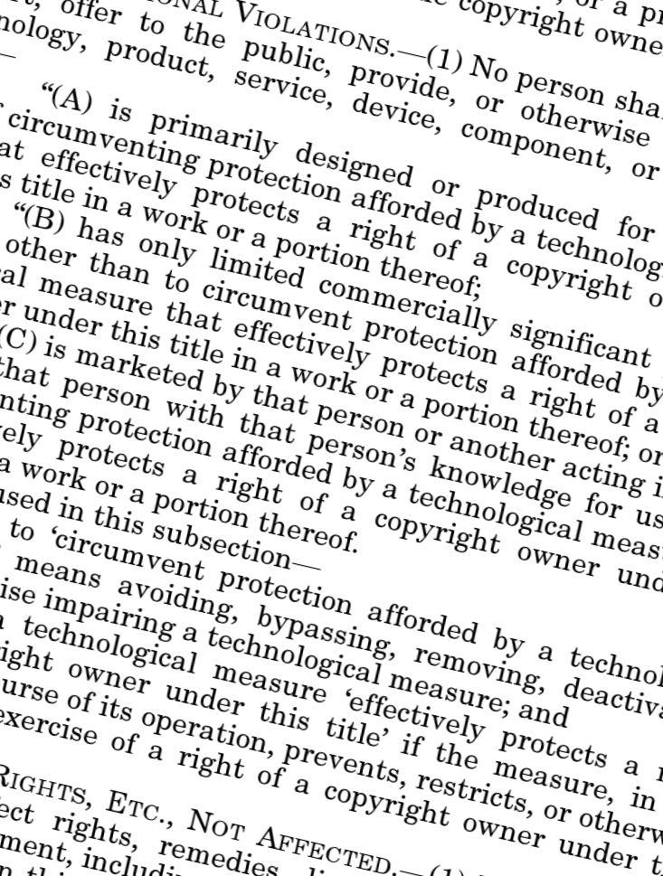 Fragment of the Digital Millennium Copyright Act. Fragment van de Digital Millennium Copyright Act.